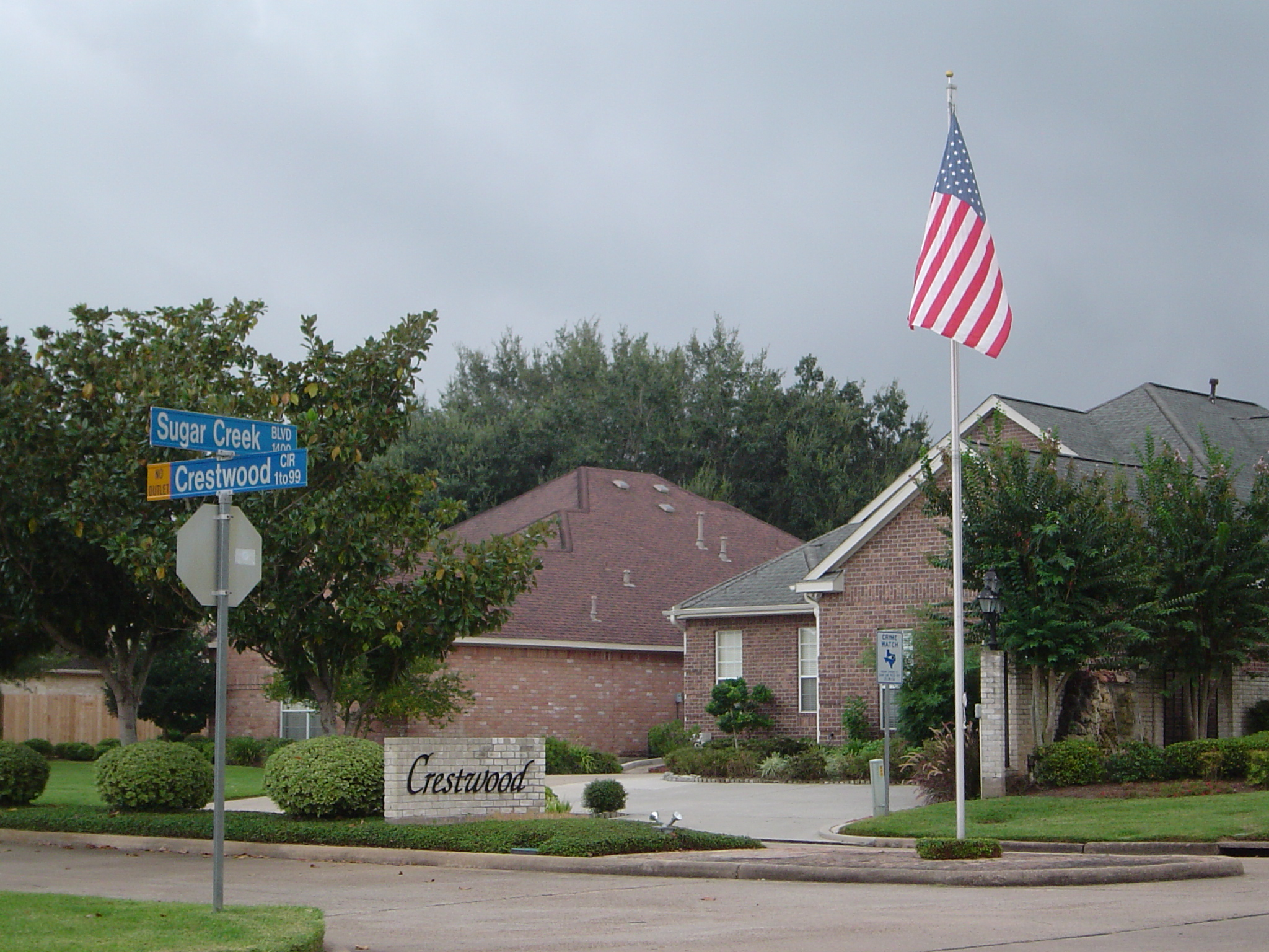 Crestwood, Sugar Creek, Sugar Land, Fort Bend County, Texas